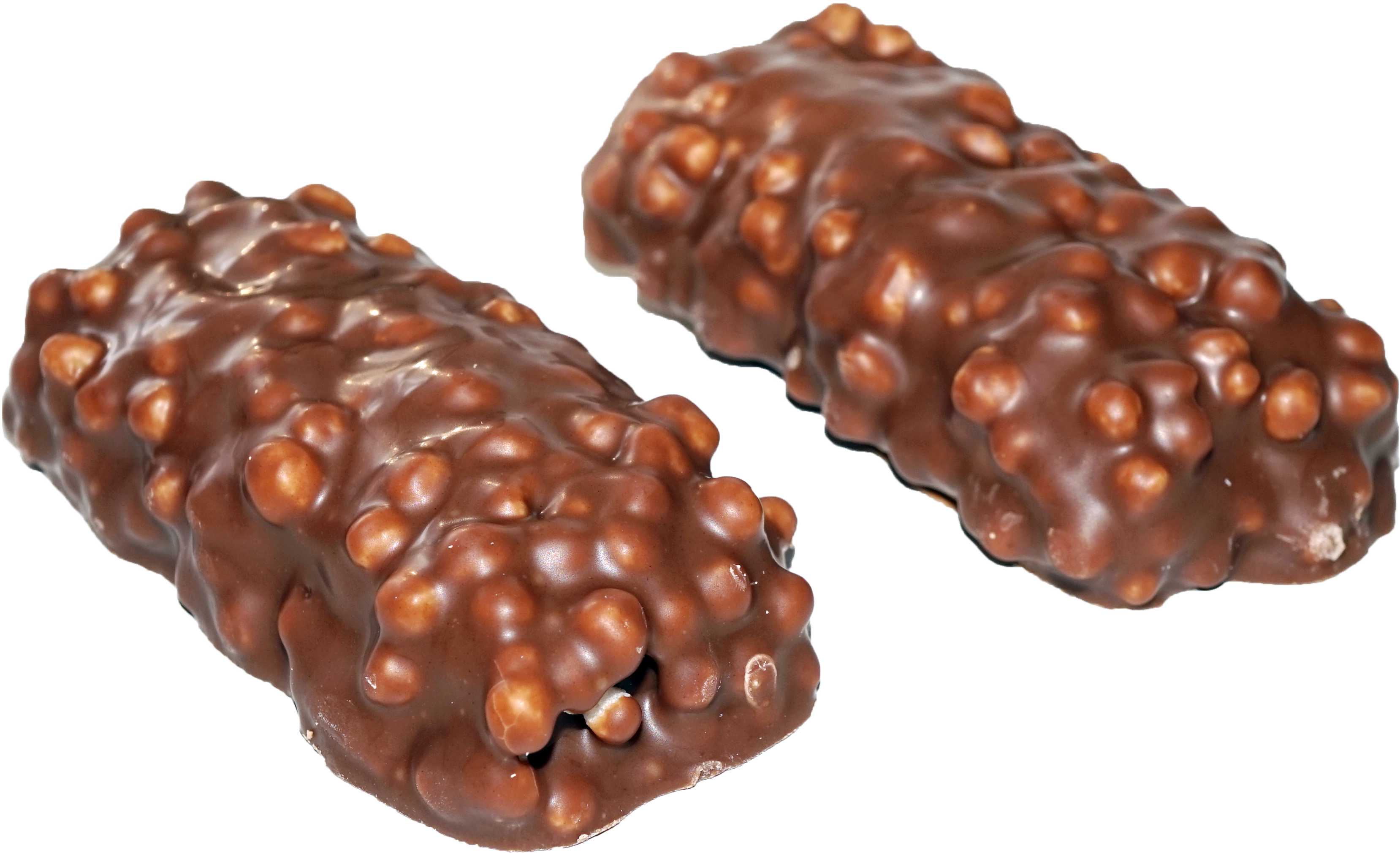 Tupla chocolate bar.